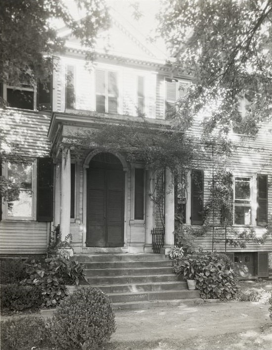 Title ["Federal Hill," John Keim house, 504 Hanover Street, Fredericksburg, Virginia. Entrance door] Contributor Names Johnston, Frances Benjamin, 1864-1952, photographer Created / Published [between 1927 and 1929] Subject Headings - Houses--Virginia--Fredericksburg--1920-1930 - Doors & doorways--Virginia--Fredericksburg--1920-1930 Format Headings Lantern slides--1920-1930. Notes - Site History. House Architecture: Rupert Brooke, governor of Vigirnia, 1794-1796 and founder of the national Federal party, purchased this house and named it "Federal Hill." Today: Extant as a private residence with door and door canopy replaced. - Title, date, and subject information provided by Sam Watters, 2011. - Forms part of: Garden and historic house lecture series in the Frances Benjamin Johnston Collection (Library of Congress). - Condition caution: unmounted slide. - Penciled on sleeve (not by FBJ?): no. # 546. Medium 1 photograph : glass lantern slide, b&w ; 3.25 x 4 in. Call Number/Physical Location LC-J717-X110- 119 [P&P] Repository Library of Congress Prints and Photographs Division Washington, D.C. 20540 USA Digital Id ppmsca 21825 //hdl.loc.gov/loc.pnp/ppmsca.21825 Library of Congress Control Number 2008680025 Reproduction Number LC-DIG-ppmsca-21825 (digital file from original item) Rights Advisory No known restrictions on publication. Online Format image Description 1 photograph : glass lantern slide, b&w ; 3.25 x 4 in. LCCN Permalink